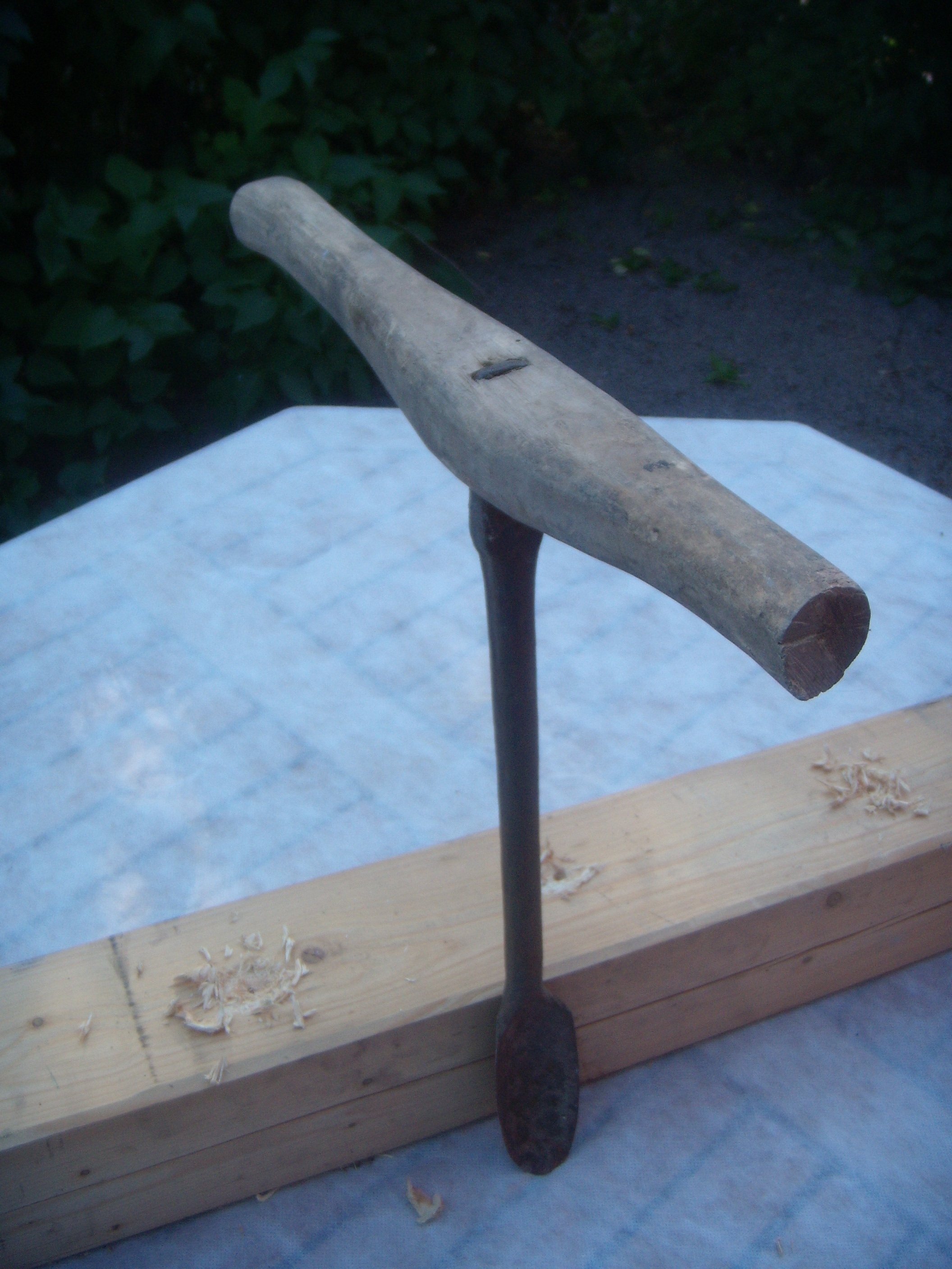 Auger.